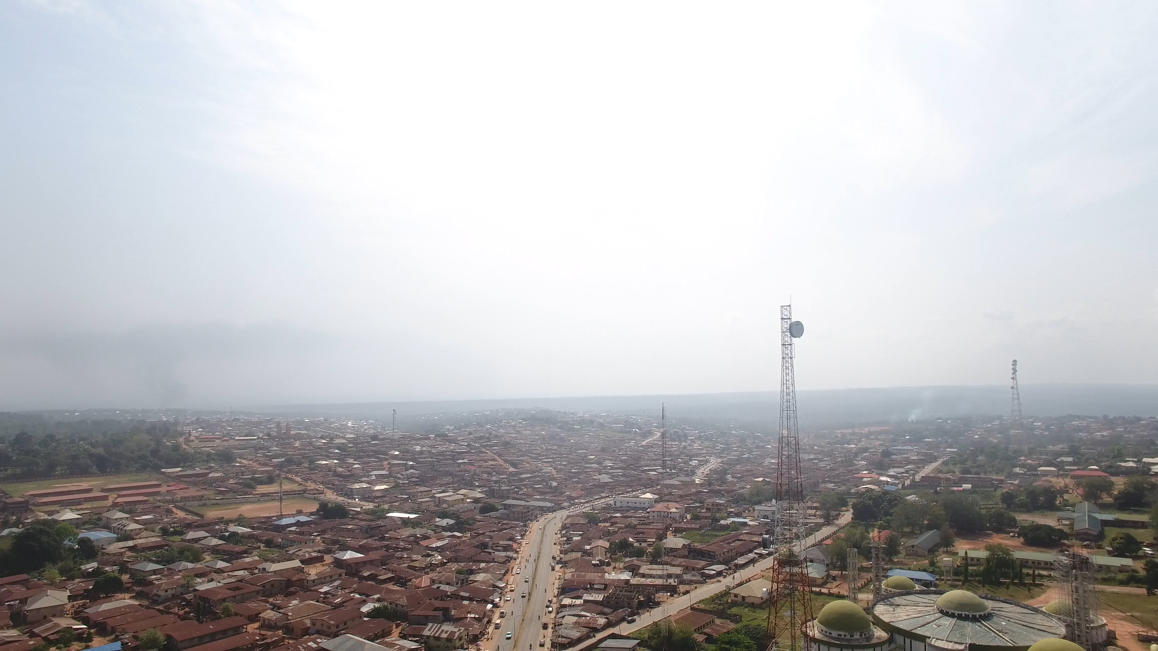 Aerial view of Auchi Town, This was taken from within the grounds of the Arafat Mosque.